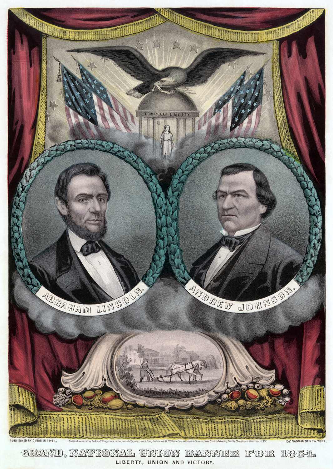 United States Republican presidential ticket, 1864. Print shows a campaign banner for 1864 Republican presidential candidate Abraham Lincoln and running mate Andrew Johnson. A drawn curtain reveals bust portraits of the two candidates in roundels framed in oak leaves. Above the portraits is a "Temple of Liberty," within which stands a female figure holding a staff and liberty cap. Four American flags flank the temple. Perched on the temple's dome is an eagle with spread wings holding a banderole in his mouth and arrows in his talons. Rays of light ending in stars emanate from the temple. A vignette below the portraits shows a man plowing with a team of horses in front of farm buildings. The peace and prosperity to come with Lincoln's reelection, evoked by this bucolic scene, are emphasized by cornucopias on either side spilling over with fruit. 1 print on wove paper : lithograph with watercolor ; image 32.2 x 22.4 cm.